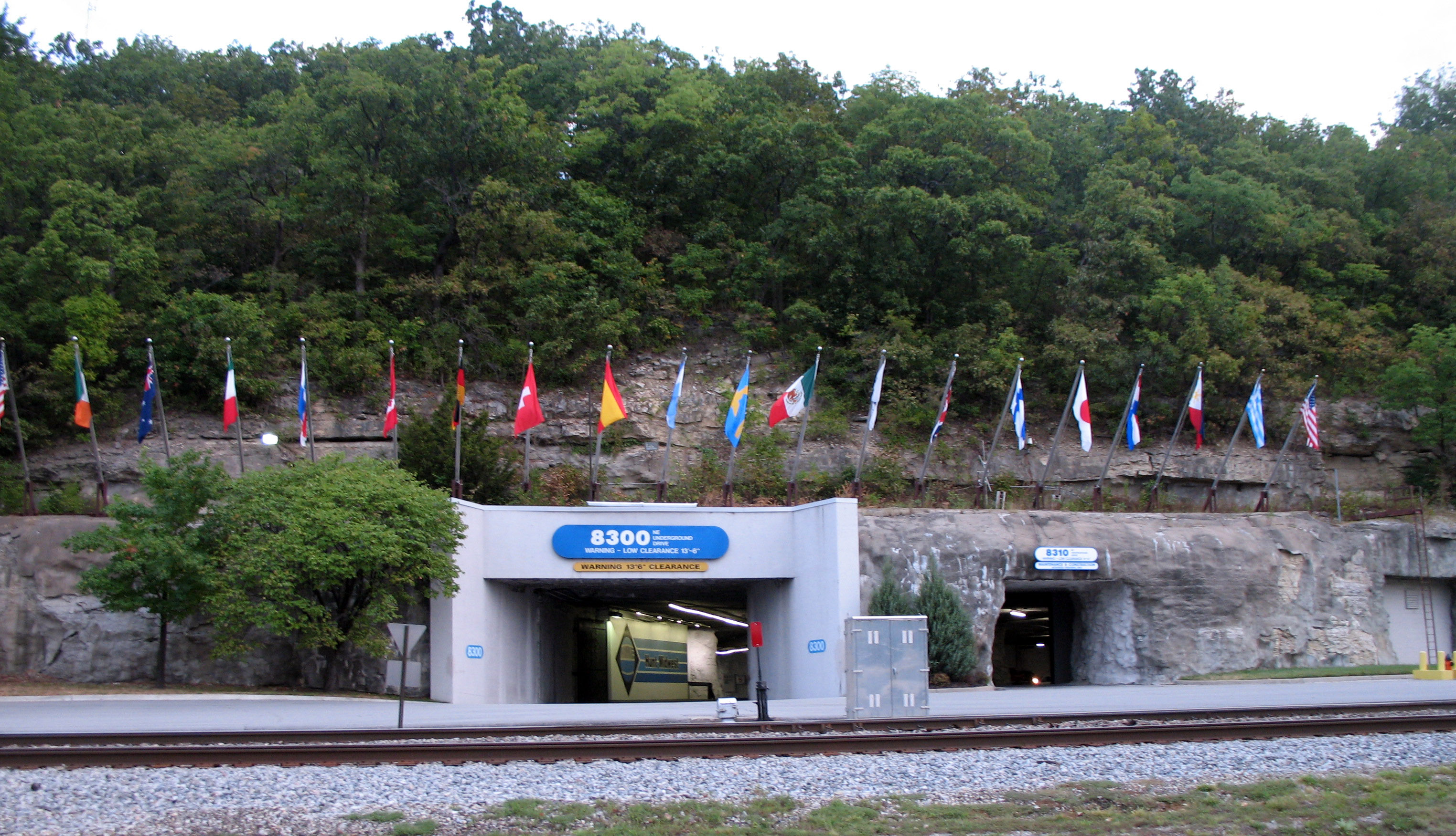 SubTropolis. Photo by poster in September 2007.